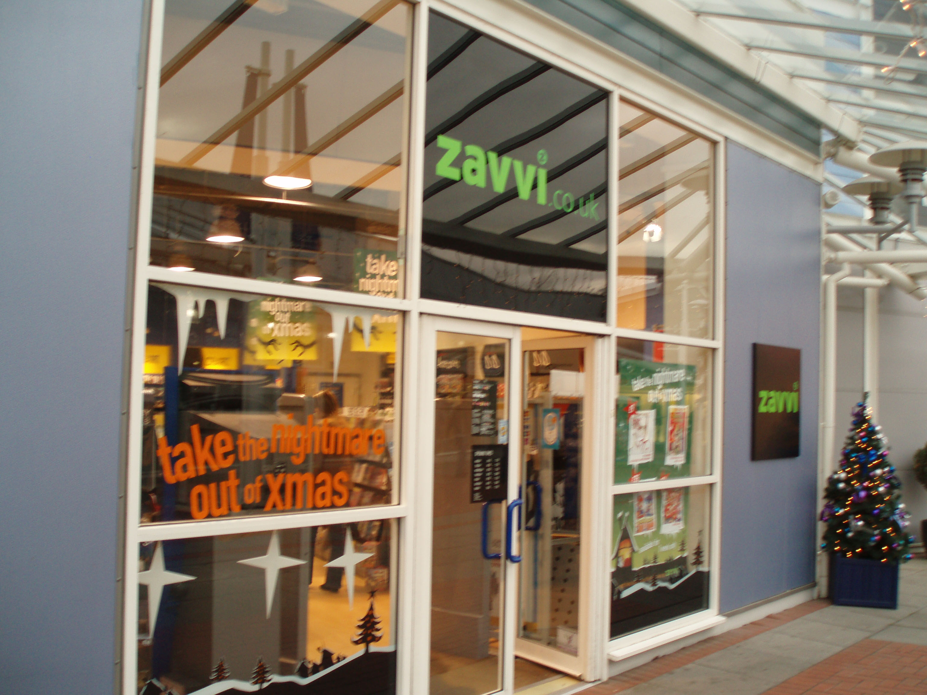 Zavvi at Royal Quays Retail Park, North Tyneside, England